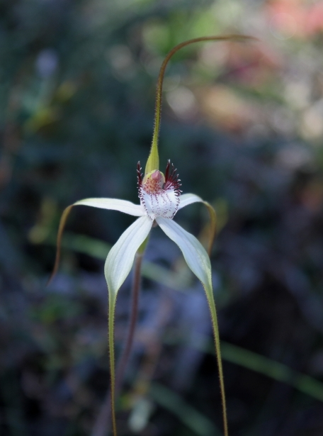 Spider orchid (Caladenia longicauda) near Perth, Australia